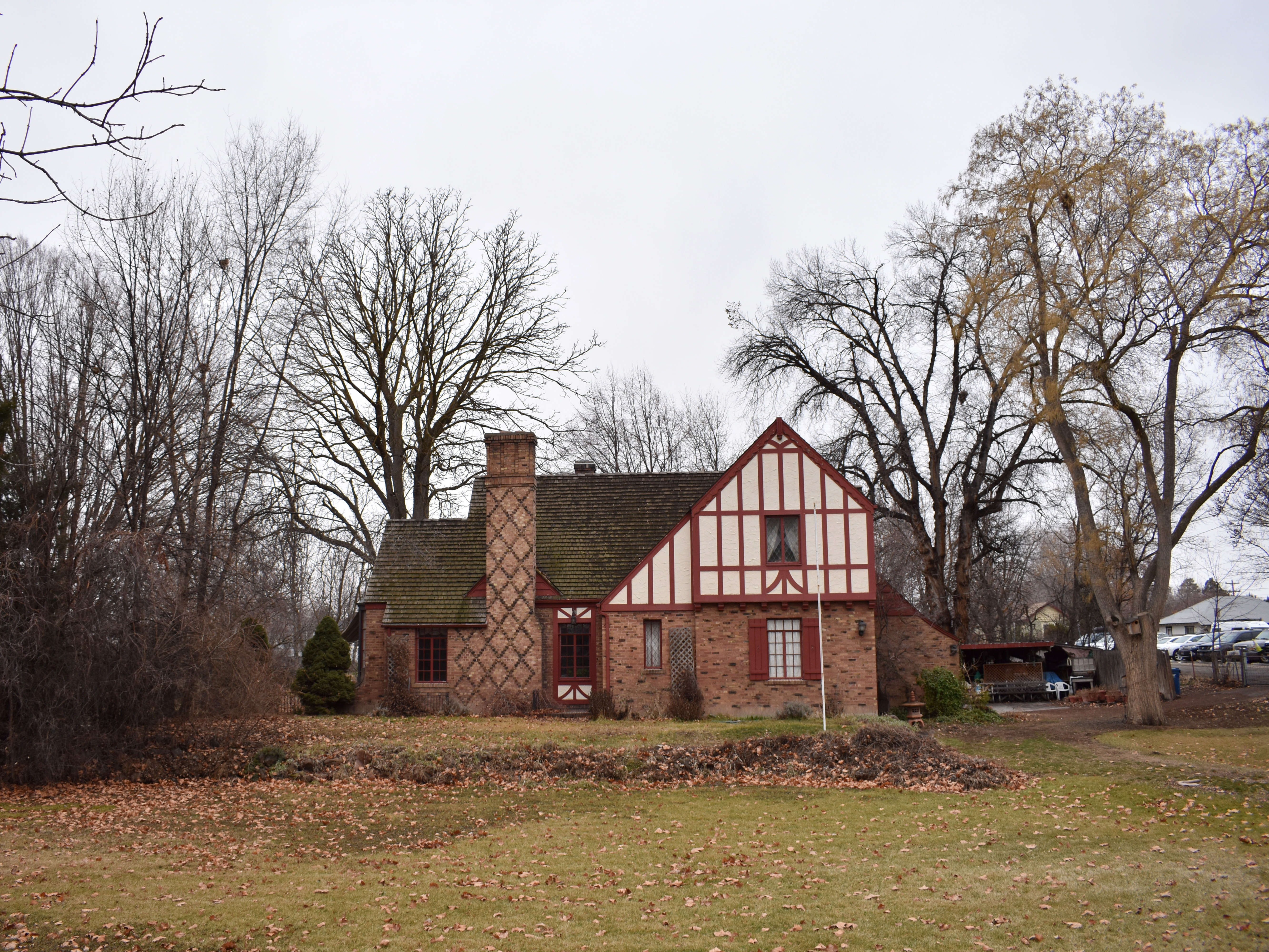 The Orville Jackson House (1932) in Eagle, Idaho, was designed by Tourtellotte & Hummel and is listed on the National Register of Historic Places.